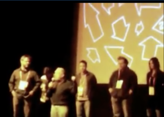 A Q&A of the film Inequality of All at the Sundance Film Festival featuring narrator Robert Reich and director Jacob Kornbluth